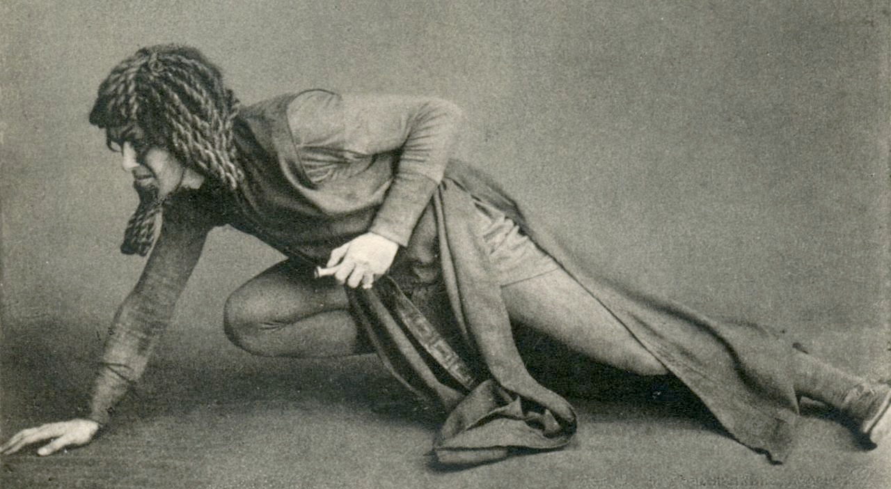 Russian actor B. M. Alfonin as Lucianus in the play-within-a-play in Edward Gordon Craig and Constantin Stanislavski's production of Hamlet (1911)